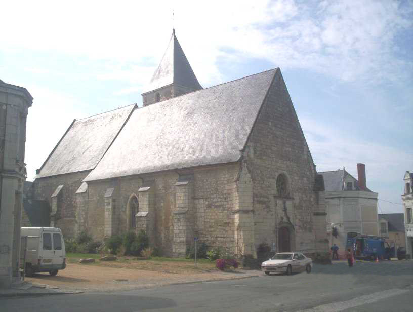 St. Blaise Church (X century) Corné, maine et loire, France